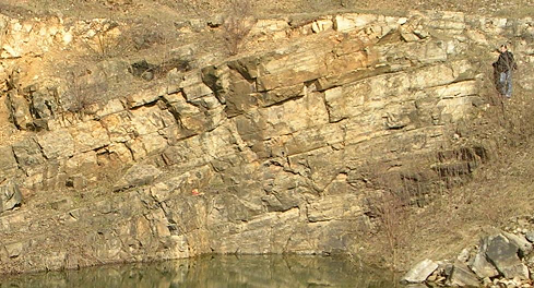 Cross bedding in a dune in the Cornberg sandstone facies. Own work. Picture taken in 2006 in Cornberg.